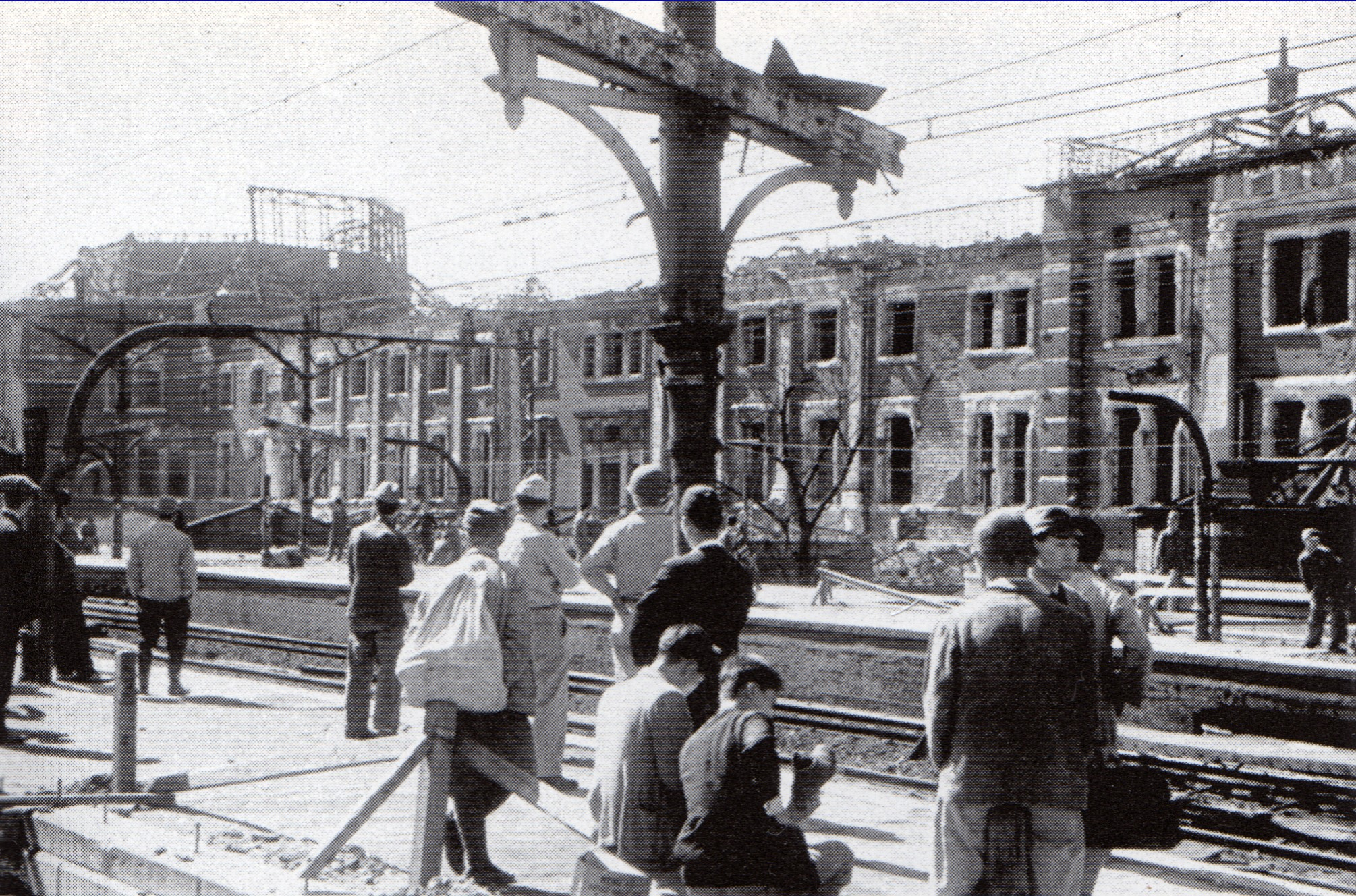 Tokyo station Marunouchi building that was devastated by airraid, seen from platform side. The platform itself has no roof.